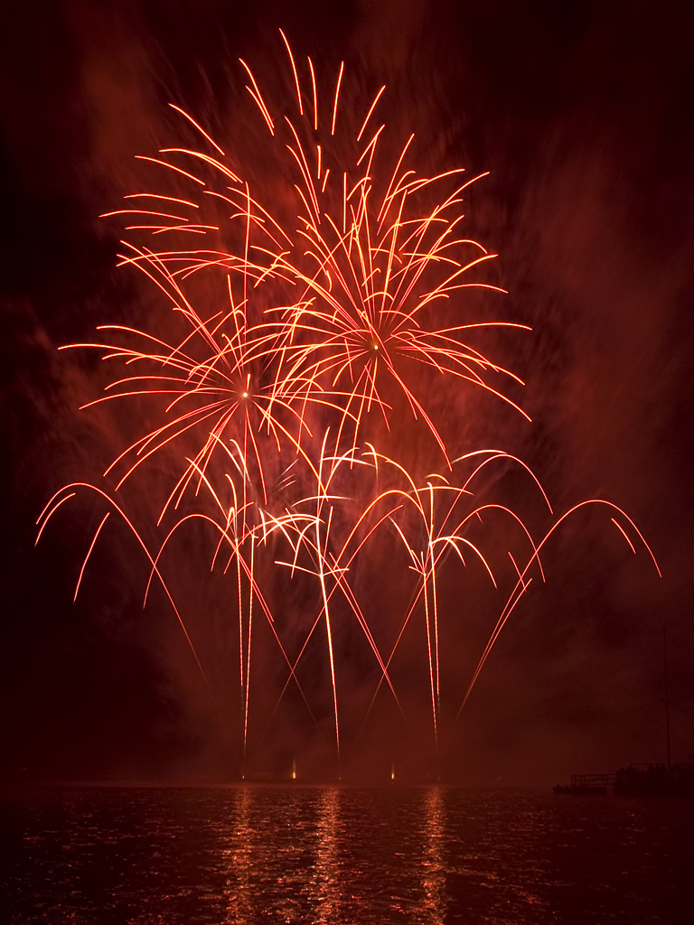 Ignis Brunensis 2010, Flash Barrandov SFX